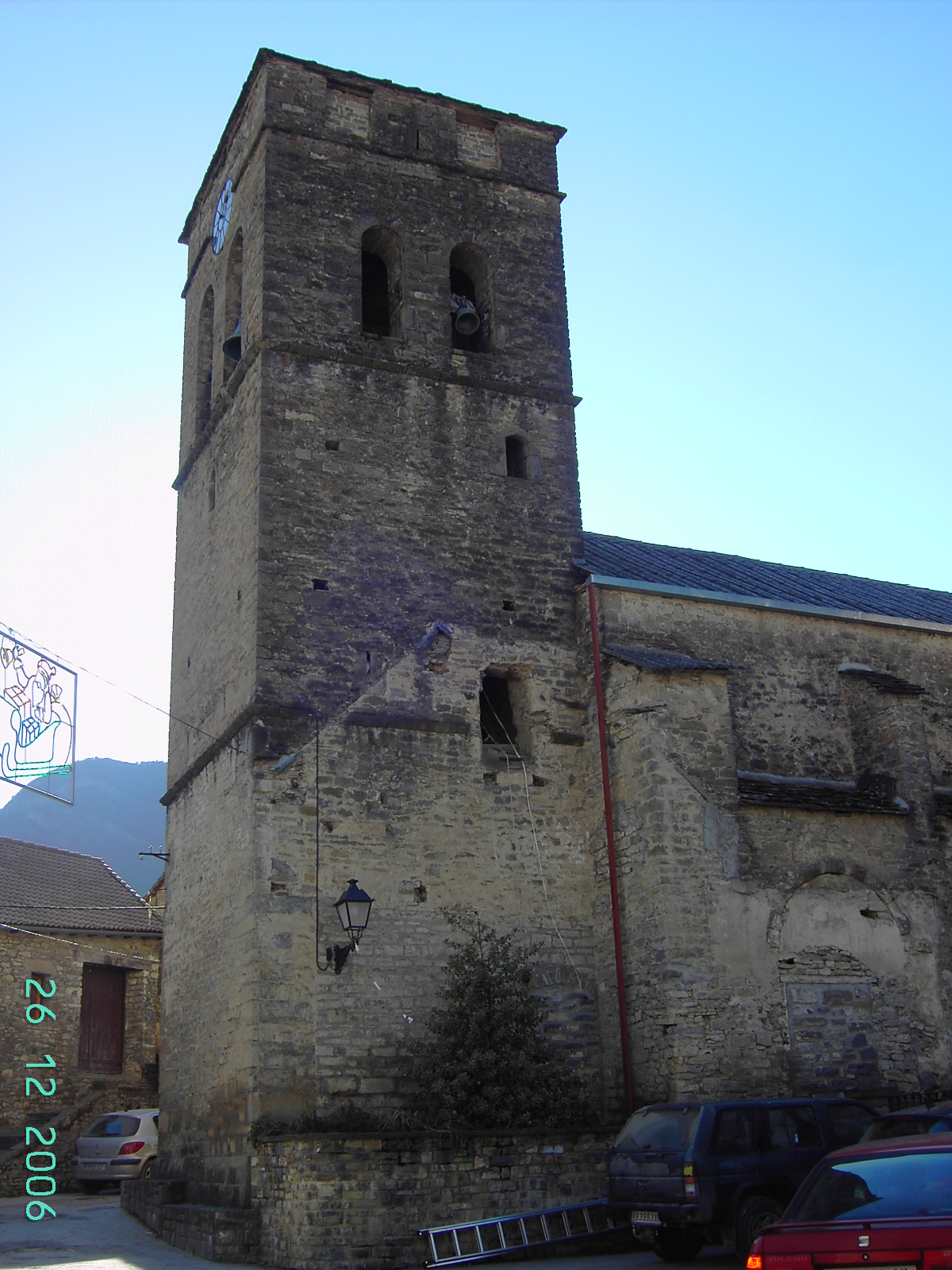 Church tower in Fiscal, Huesca, Spain